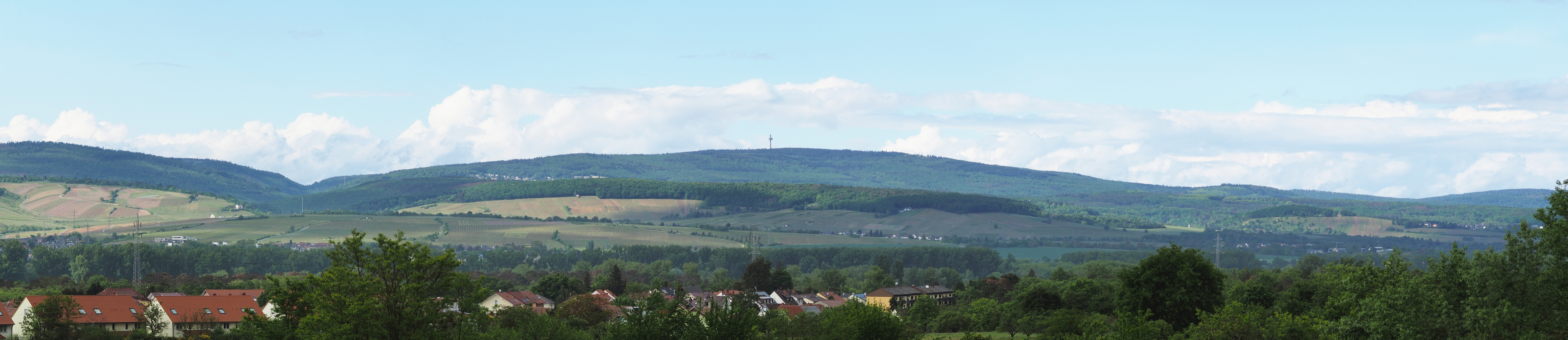 View towards Hohe Wurzel from the Rhine valley